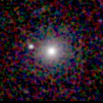 Galaxy NGC 466